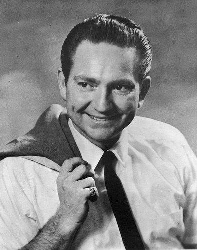 Willie Nelson's publicity portrait for the Grand Ole Opry.